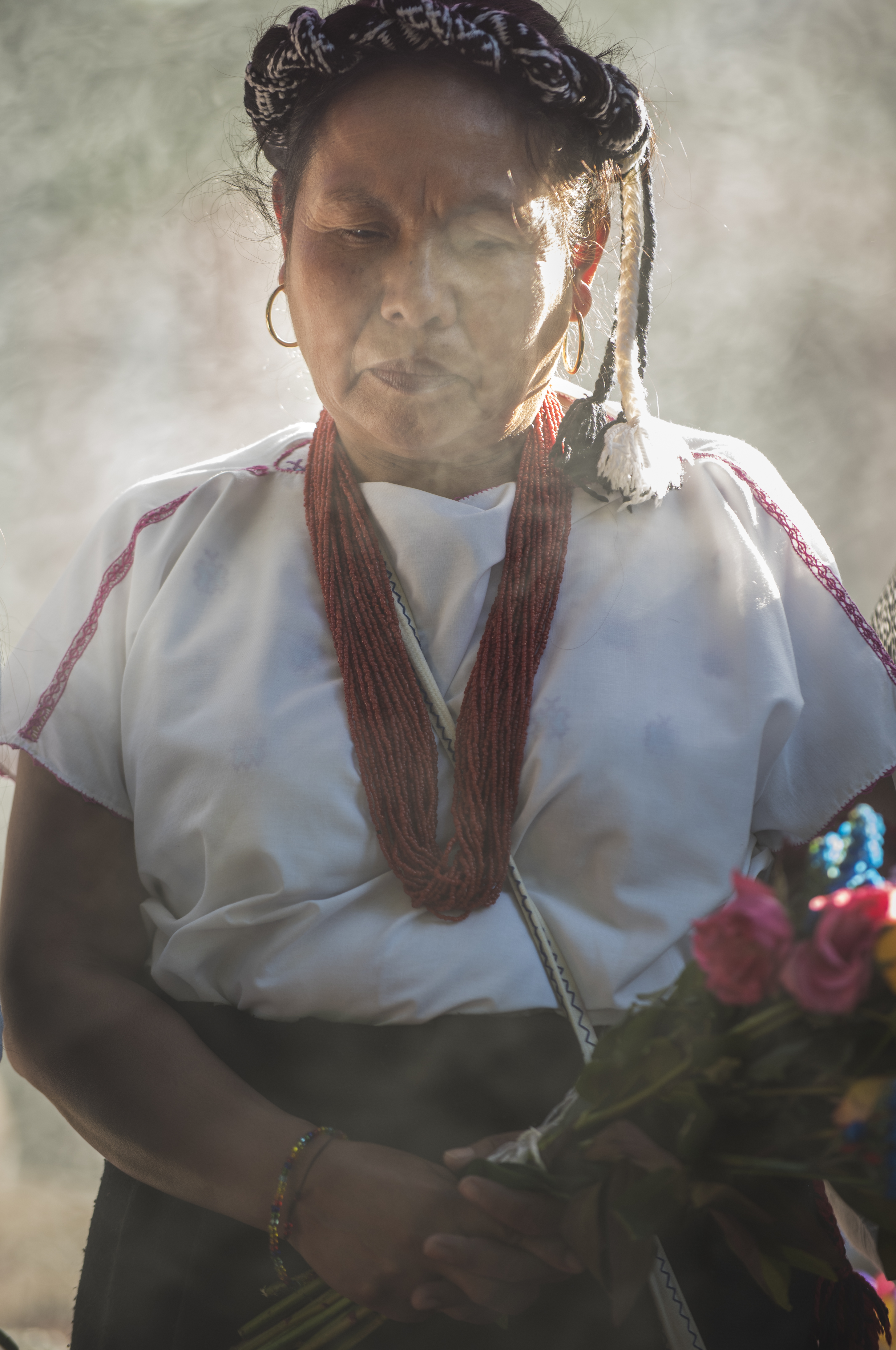 The elected representative indigenous spokeswomen by National Indigenous Congress (CNI) for the Mexican general election, 2018, for which she will run as an independent candidate for the Presidency of Mexico.